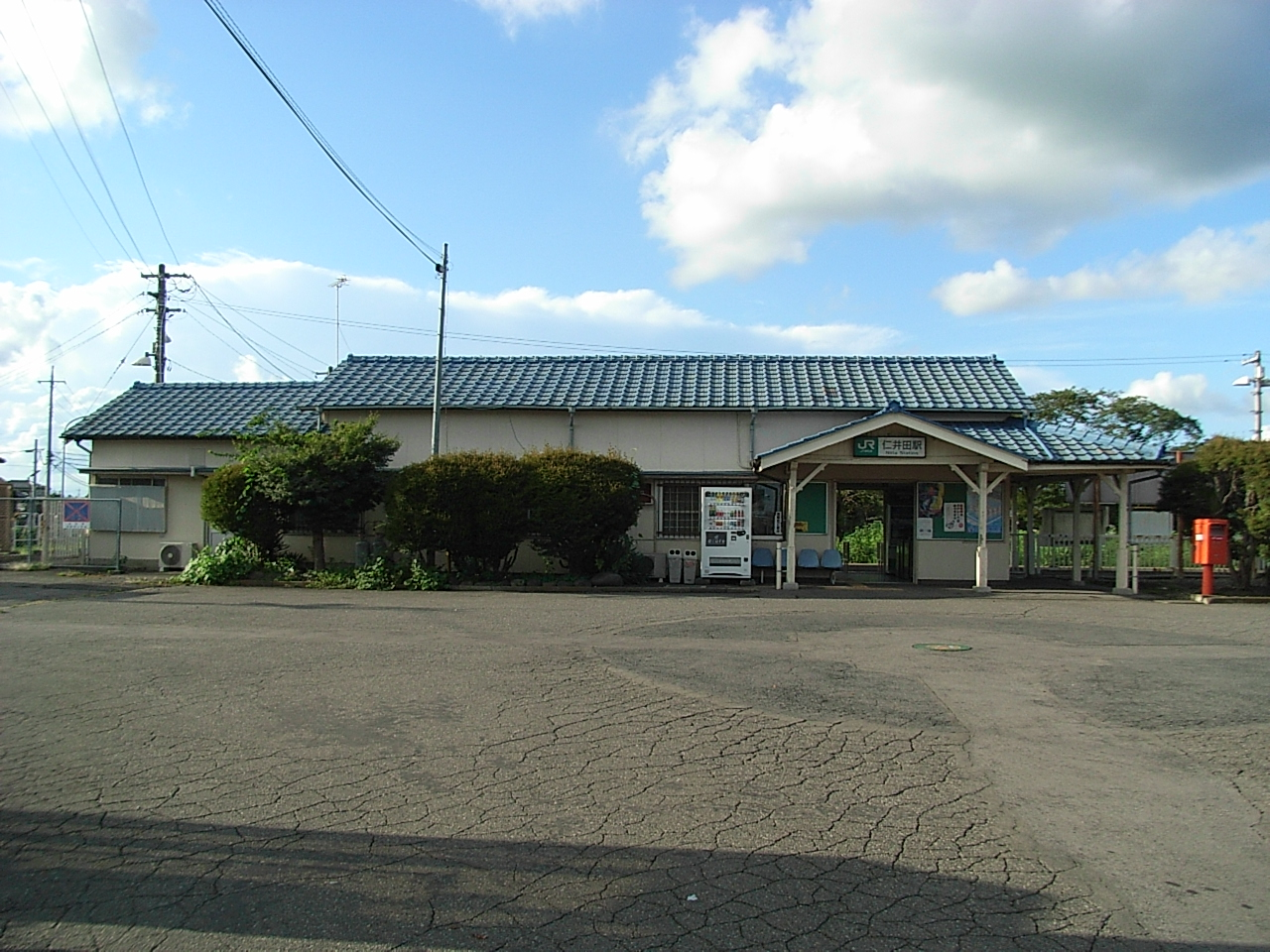 Niita Station on JR Karasuyama Line. (28,Fubasami,Takanezawa-machi,Shioya-gun,Tochigi-ken,JAPAN)